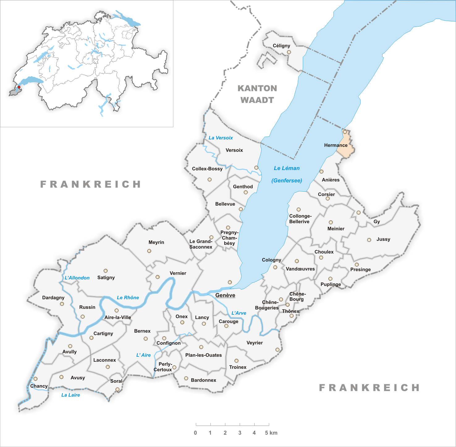 Municipality Hermance